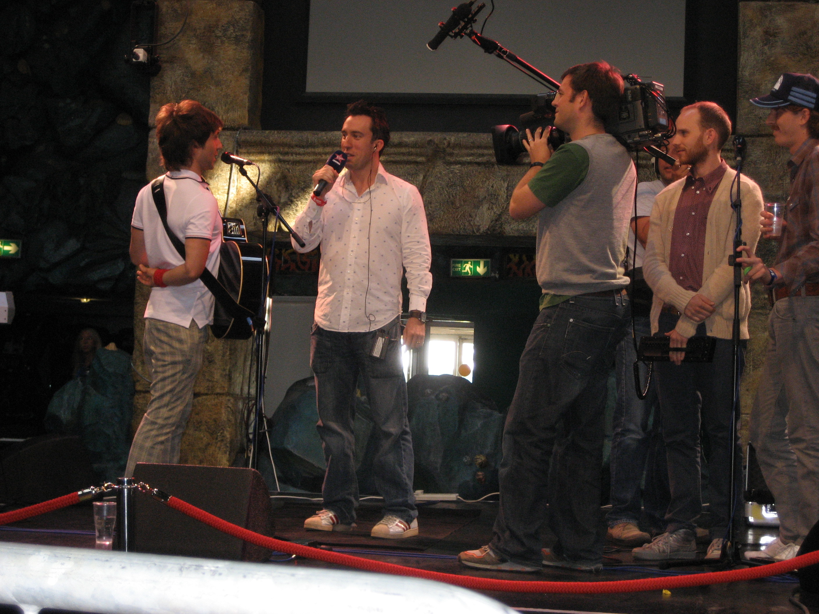 English Absolute Radio DJ Christian O'Connell with The Hoosiers